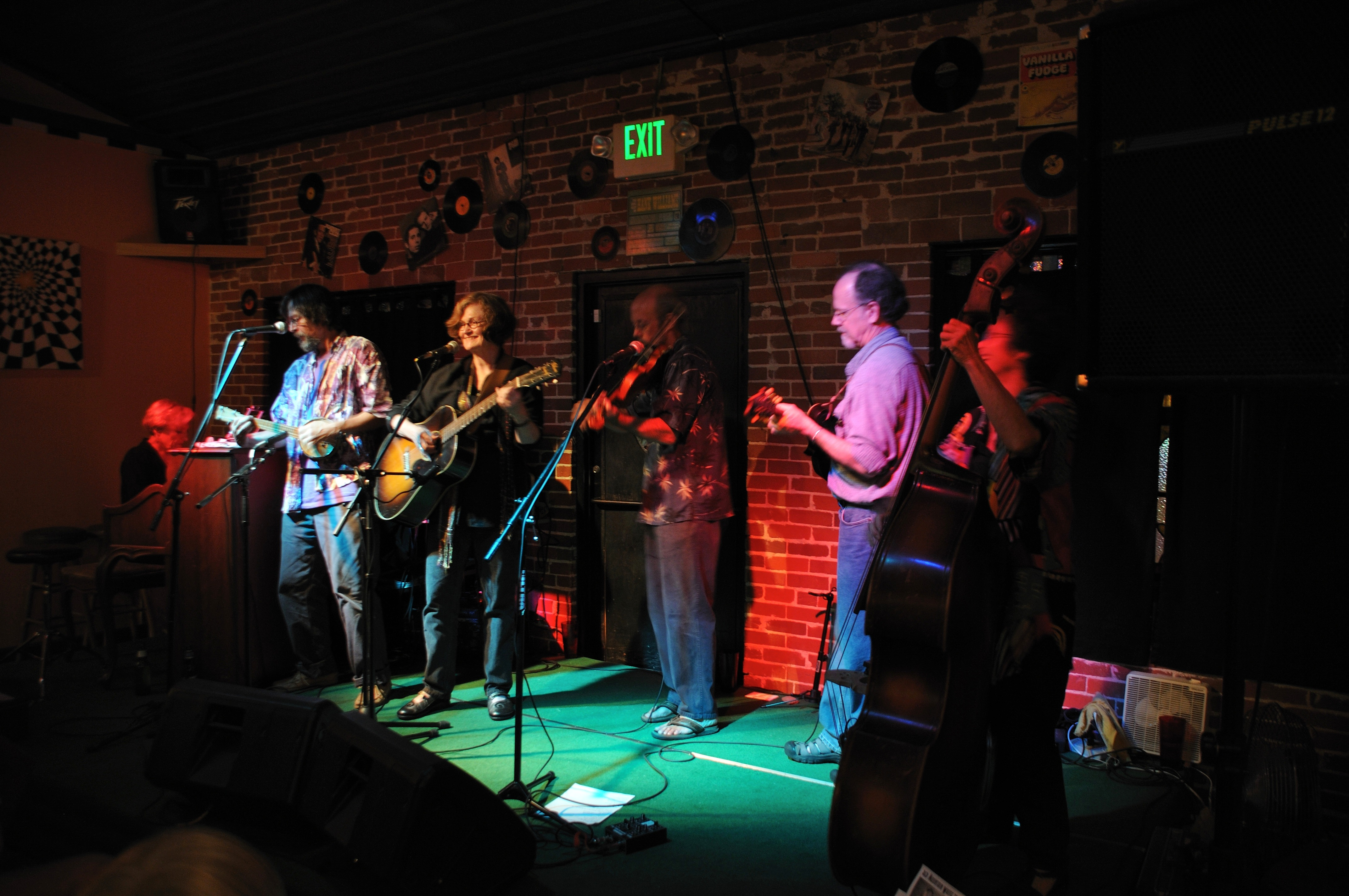 The string band, Red Mountain (formerly known as Red Mountain White Trash), performs.